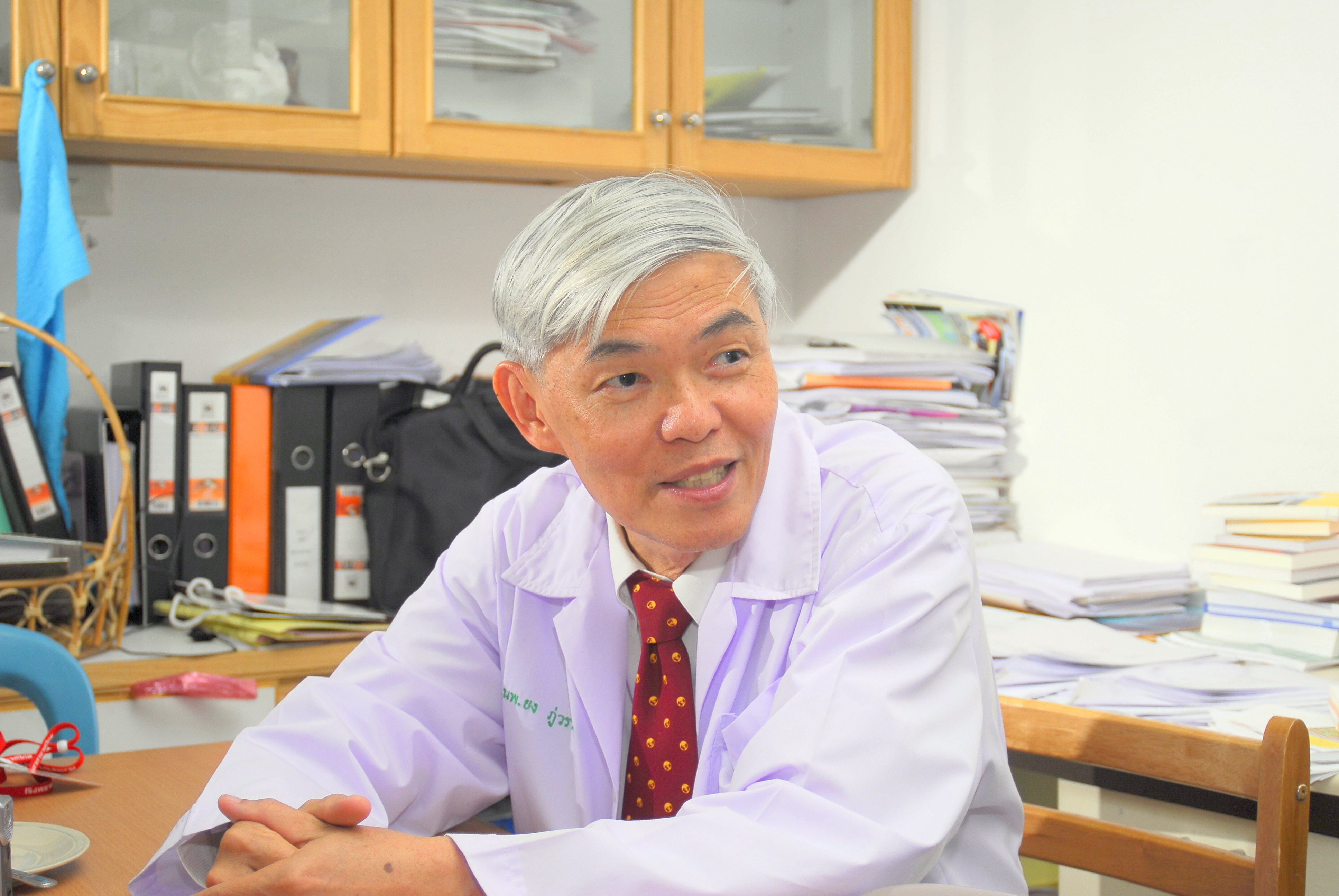 Prof.Yong Poovorawan